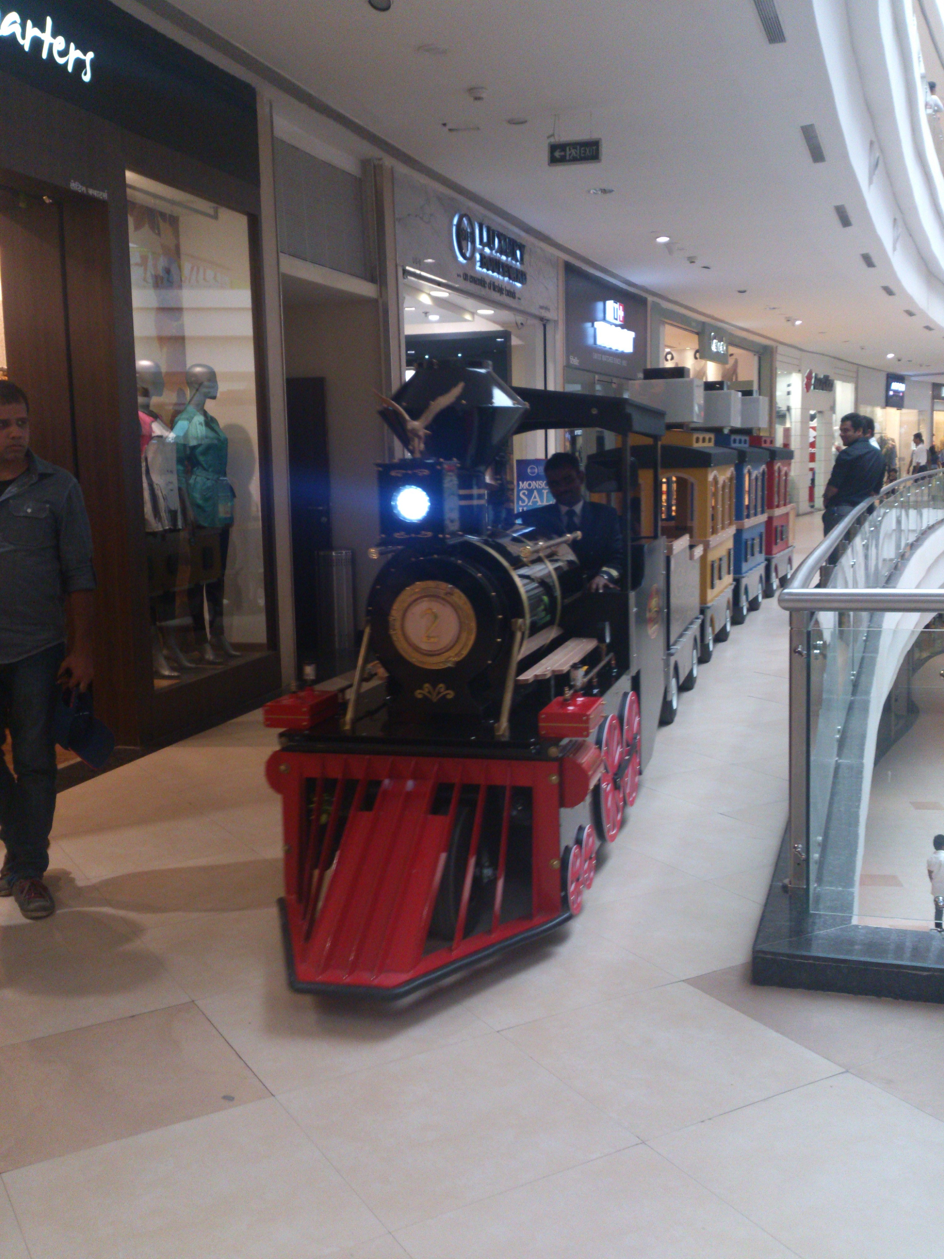 Train for children, Phoenix MarketCity, Nagar Road in Pune, India